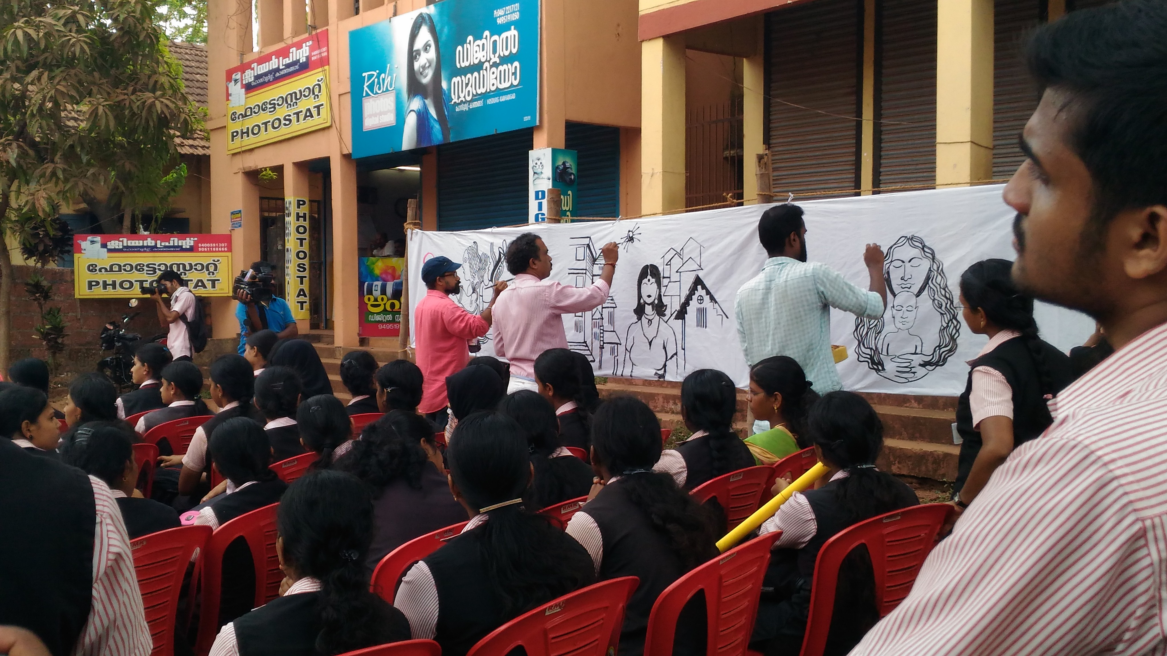 A group of artists painting on a special occasion or purpose in connection to a public programme or movement.